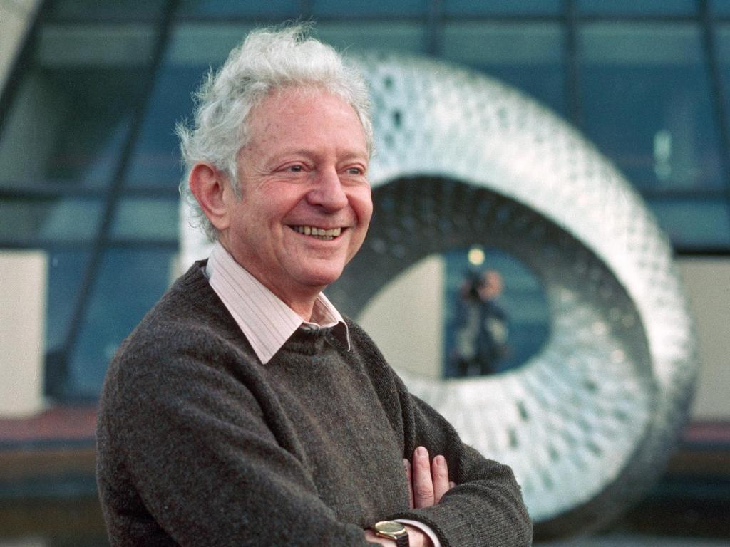 Nobel laureate Leon M. Lederman